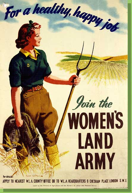 British Women's Land Army recruitment poster, depicting a blonde woman with pitchfork, captioned 'For a healthy, happy job join the Women's Land Army'.